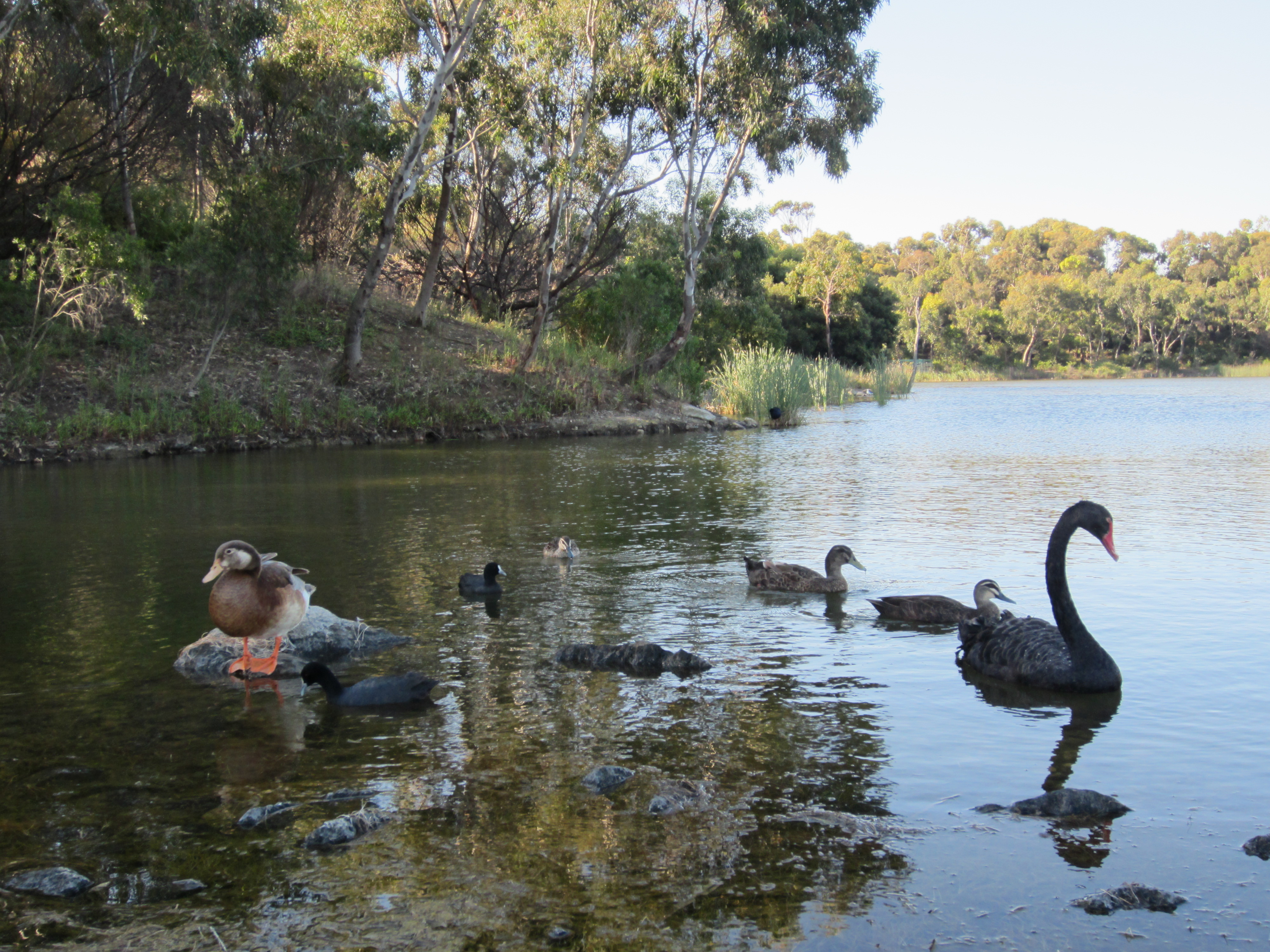 Newport Lakes, bird-life, Victoria